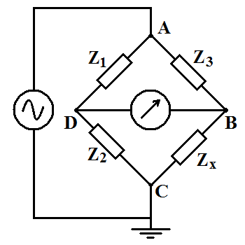 AC_Bridge for measurance impedance.